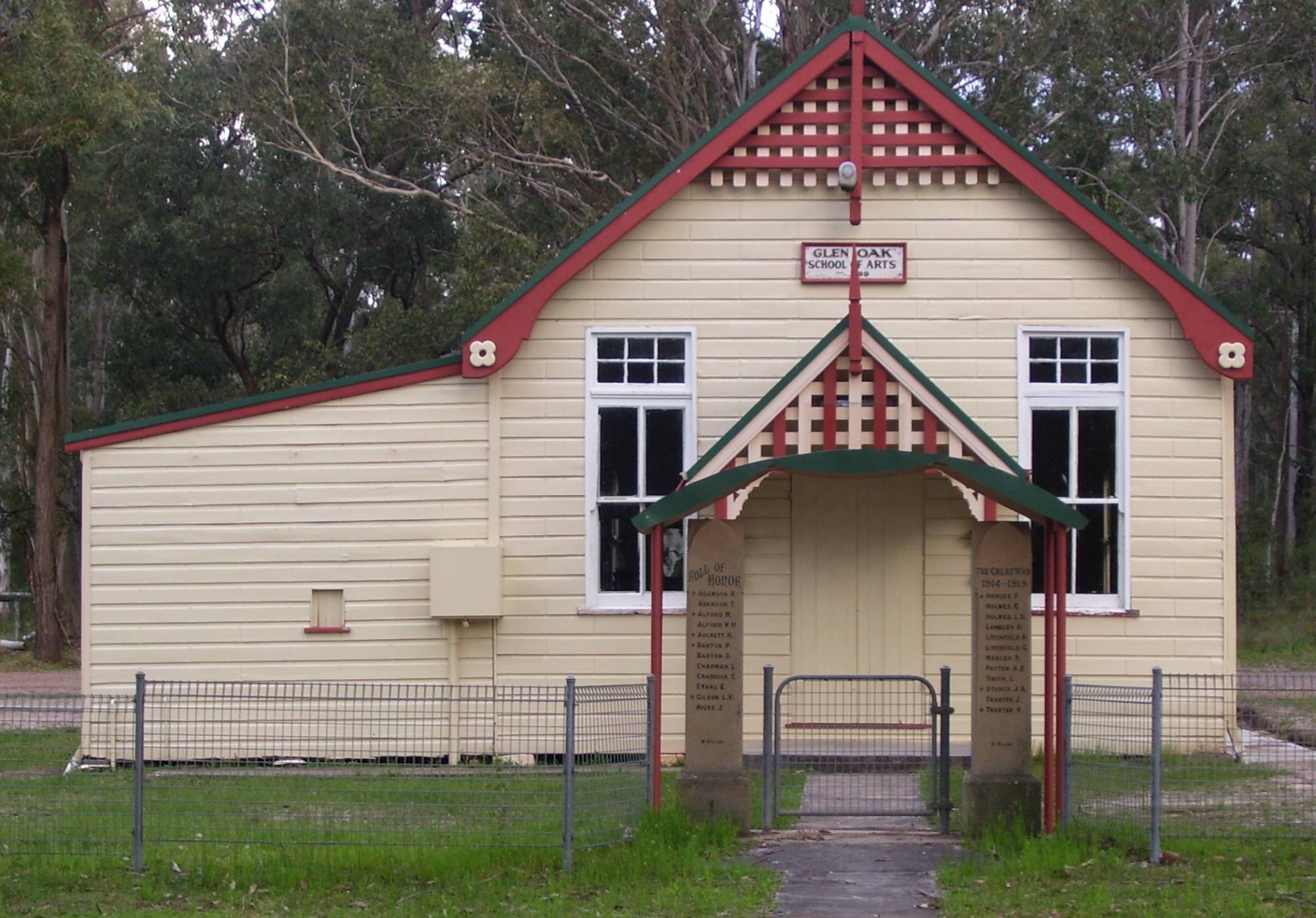 Community owned hall near Glen Oak, New South Wales